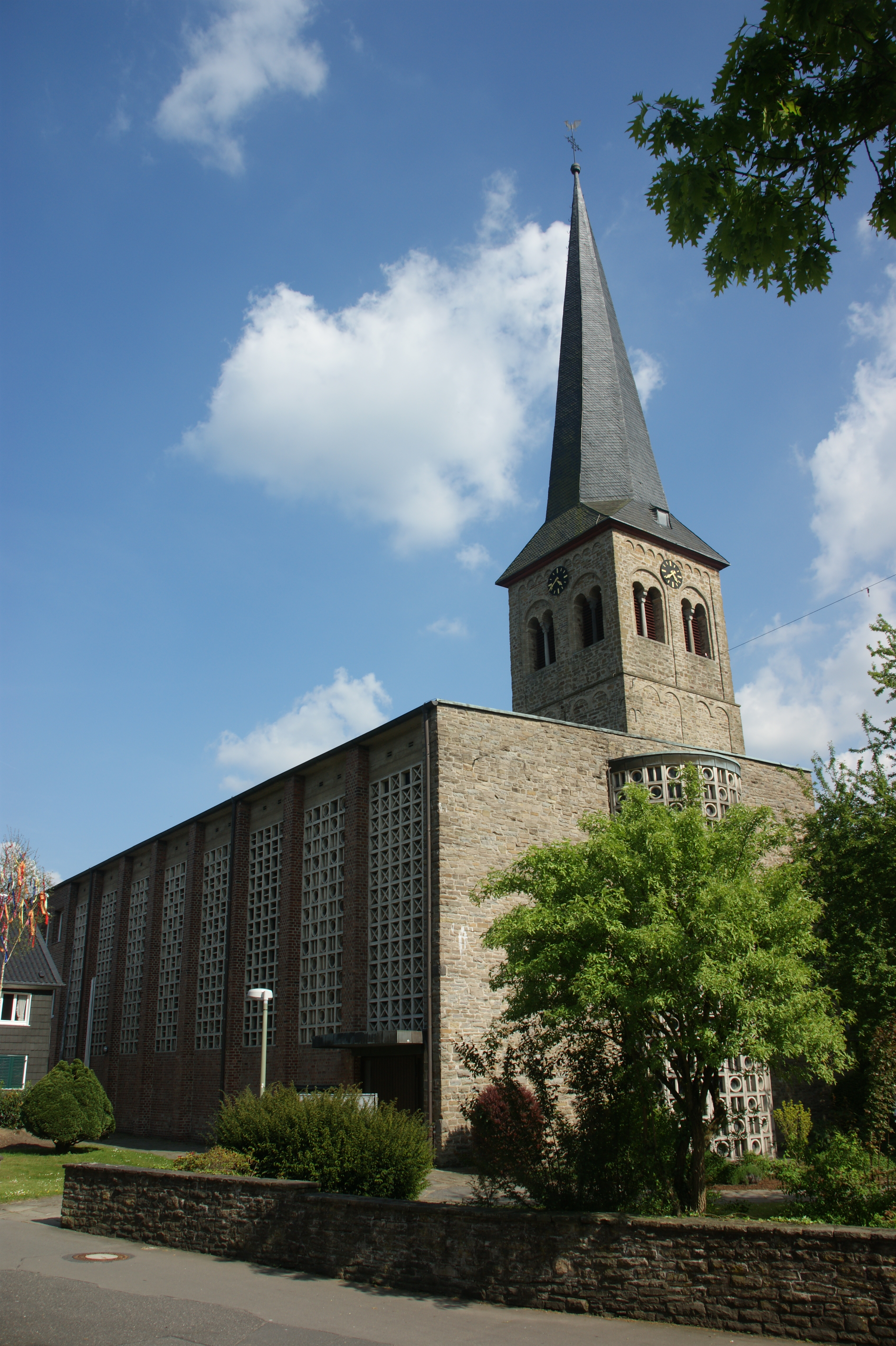 St. Walburga church in Overath